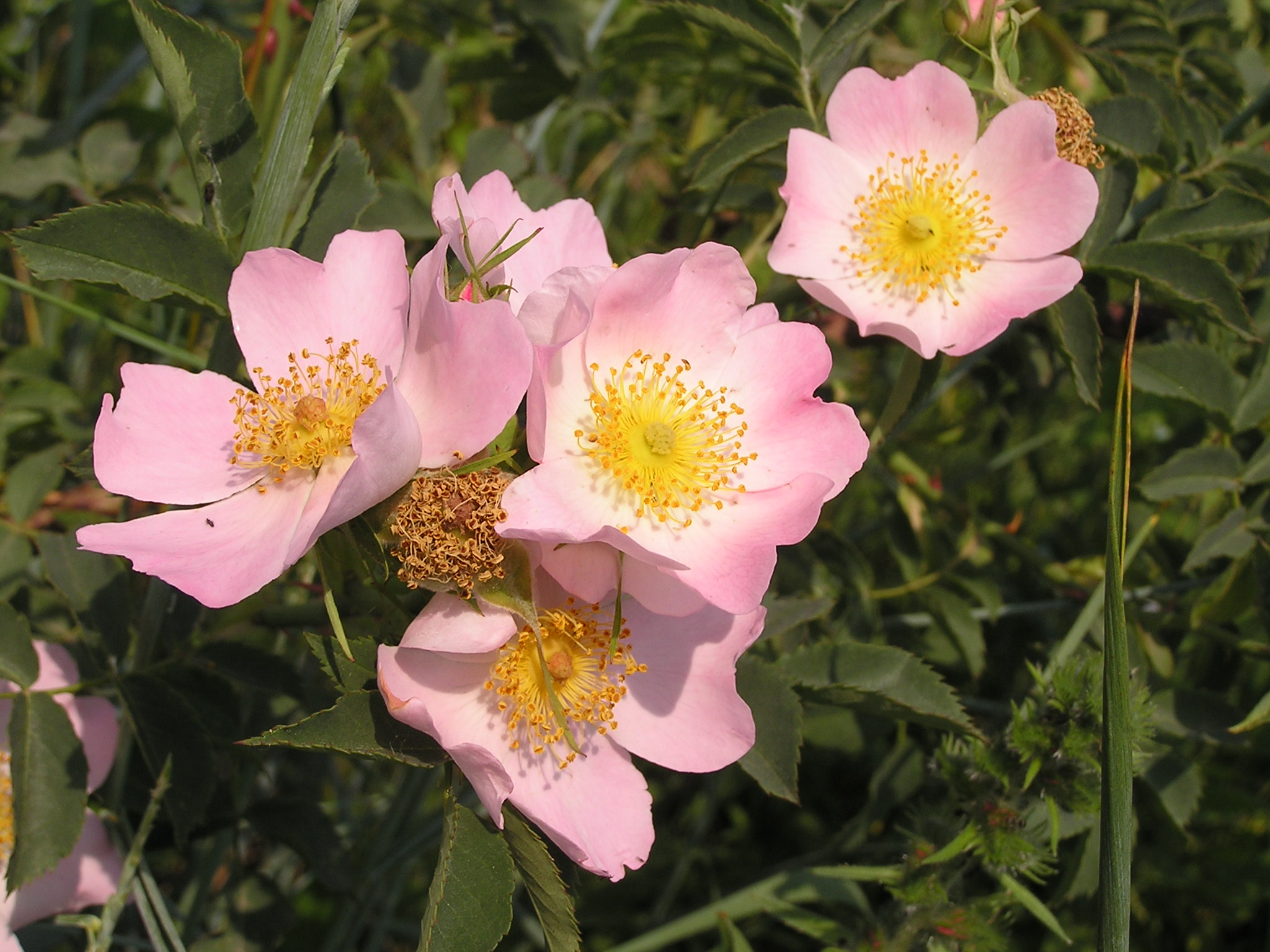 Rosa canina in Donetsk